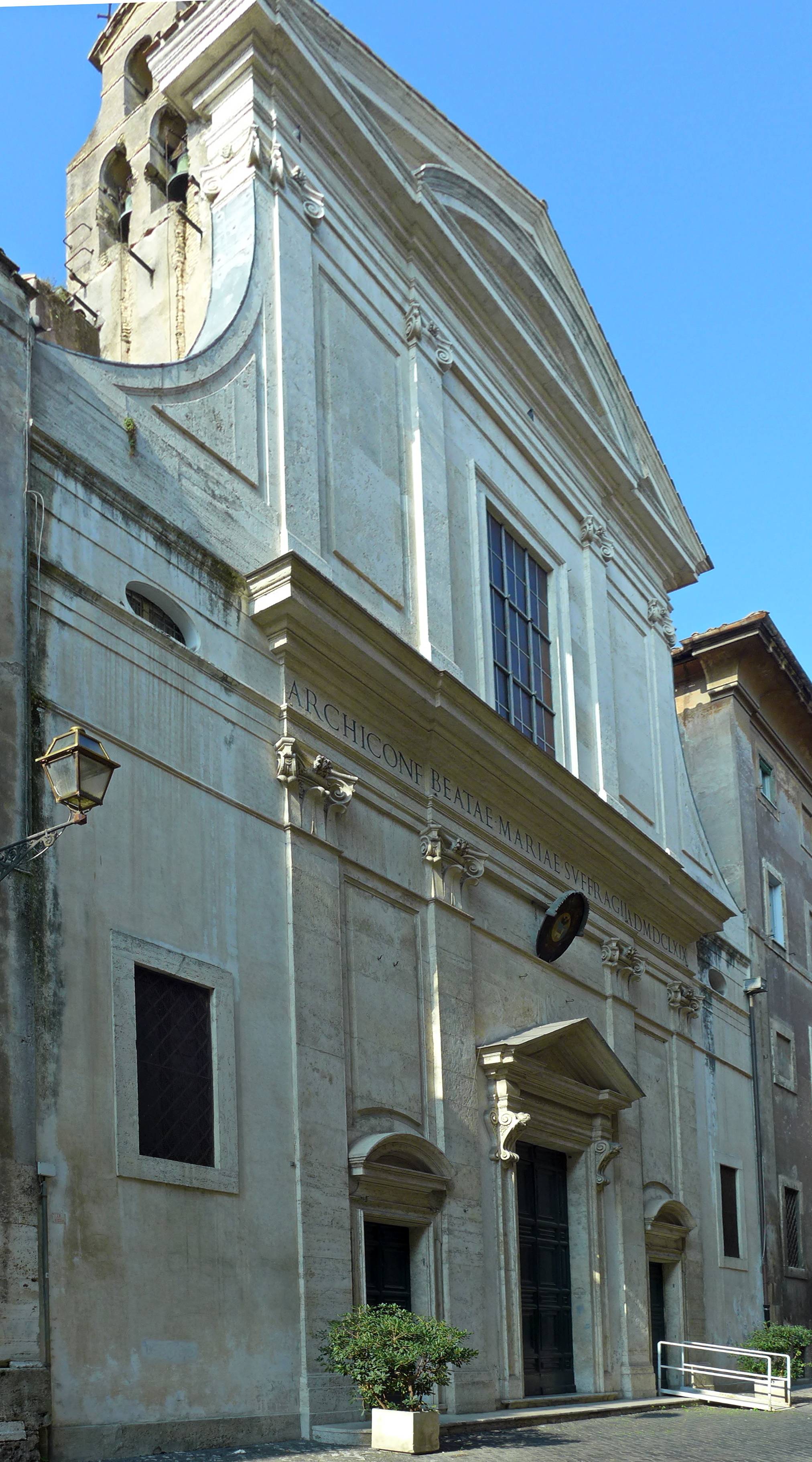 Via Giulia (Rome); Santa Maria del Suffragio